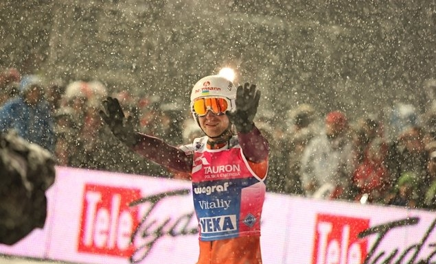 Vitaliy Shumbarets during Adam's Bull's Eye on 26 March 2011 in Zakopane.